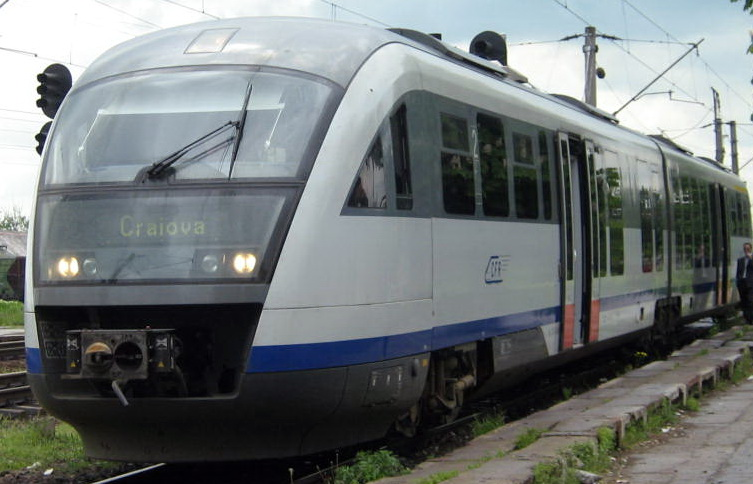 Blue Arrow